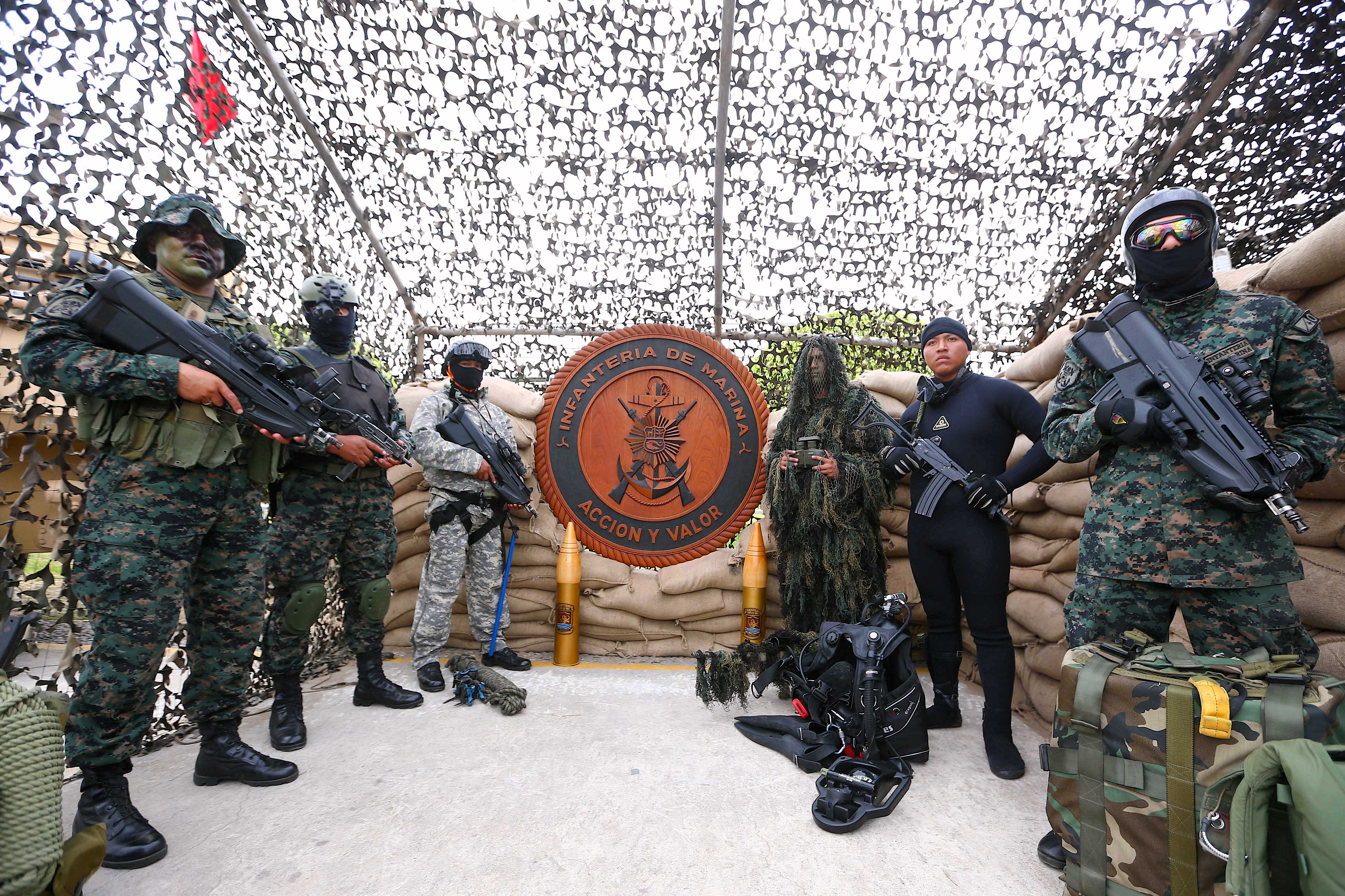 Peruvian Marines of various specialties pose during Peru's SITDEF 2017.